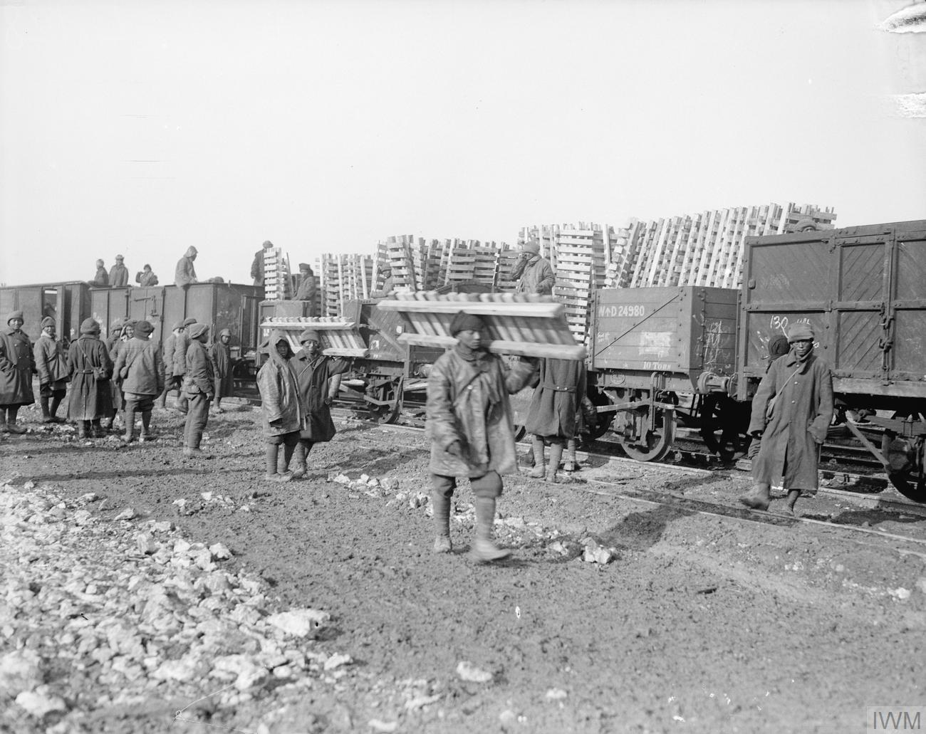 The Chinese Labour Corps on the Western Front, 1914-1918 Men of the Chinese Labour Corps unloading duck boards at a railway siding at Ytres, 2 February 1918.